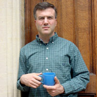 Peter Lipton with a mug